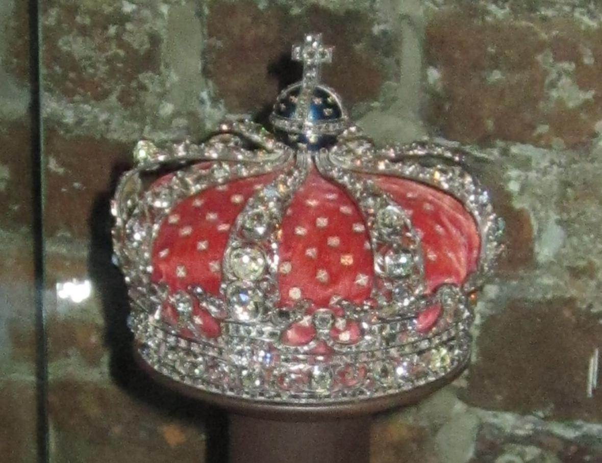 Crown of the Queen of Sweden as shown to public on National DayPlace: Royal Treasury, Stockholm Palace, Sweden